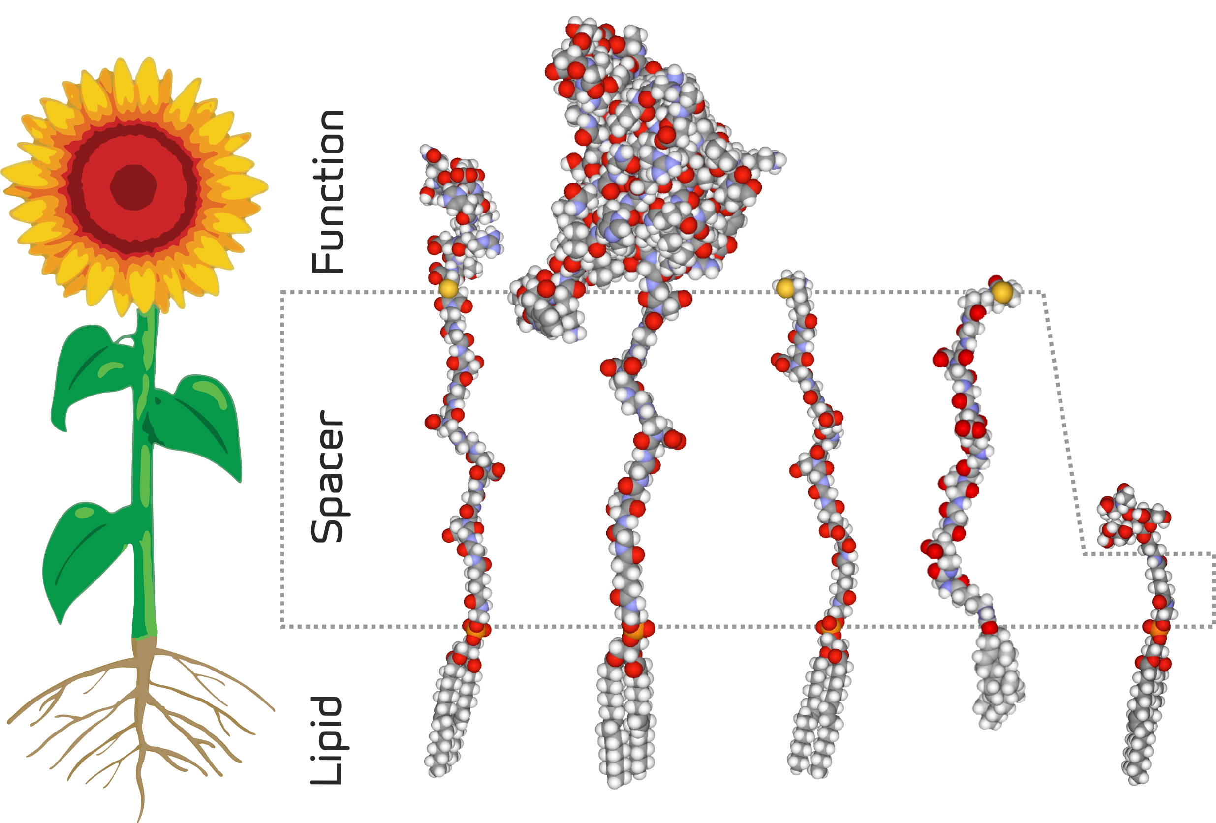 Structural analogy of a sunflower to space filling models of selected FSL constructs. The two FSL constructs on the left are FSL-peptides based on partially carboxymethylated oligoglycine (CMG2) spacers with 1,2- dioleoyl-sn-glycero-3-phosphoethanolamine (DOPE) lipids. The 3rd and 4th constructs are FSL-biotin based on CMG but with DOPE and sterol (δ-oxycarbonylaminovaleric acid derivative of cholesterol) lipids, respectively. The final FSL construct is a typical trisaccharide, conjugated via an O(CH2)3NH spacer to an activated adipate derivative of the diacyl lipid DOPE.